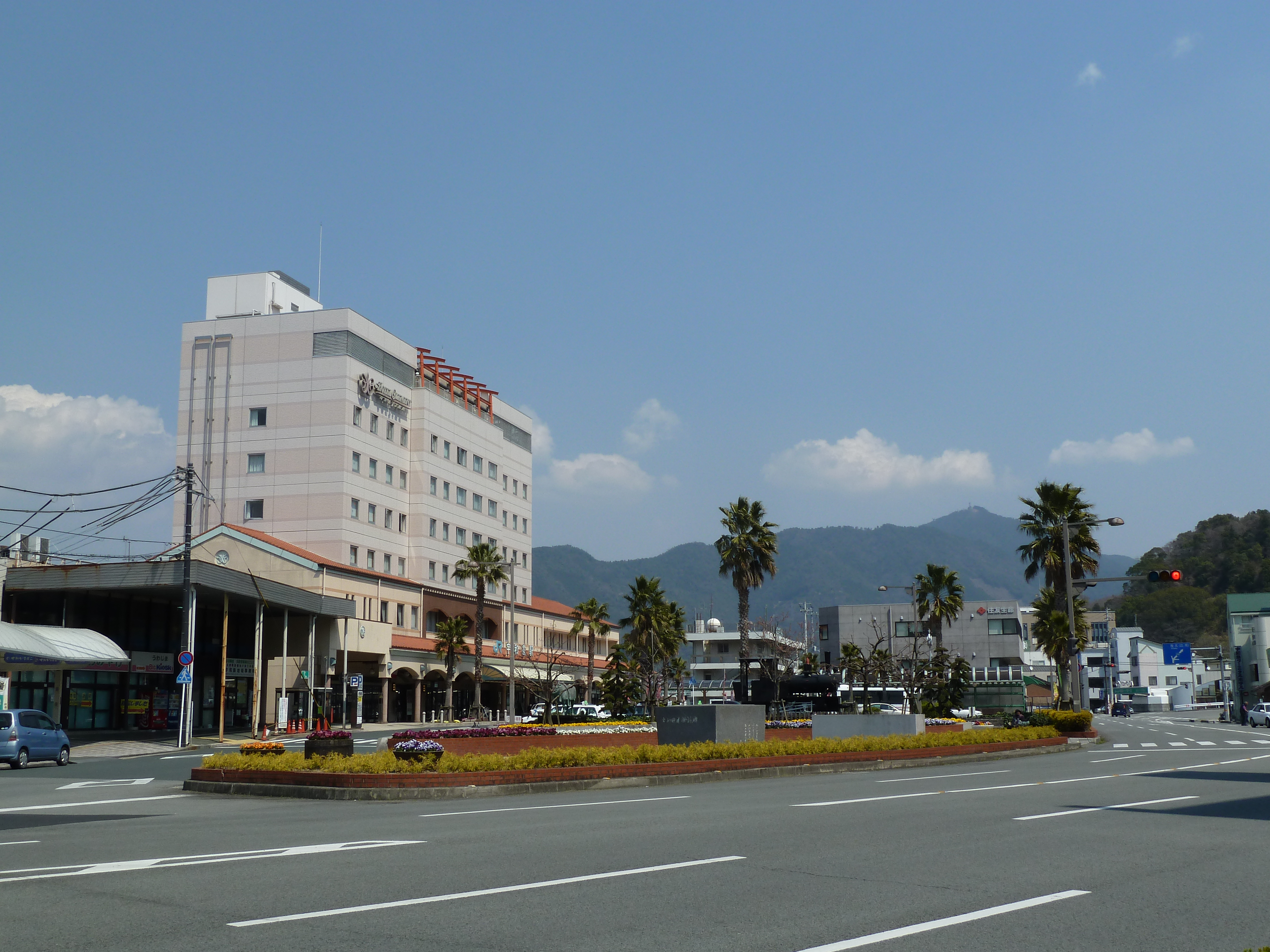 宇和島駅前